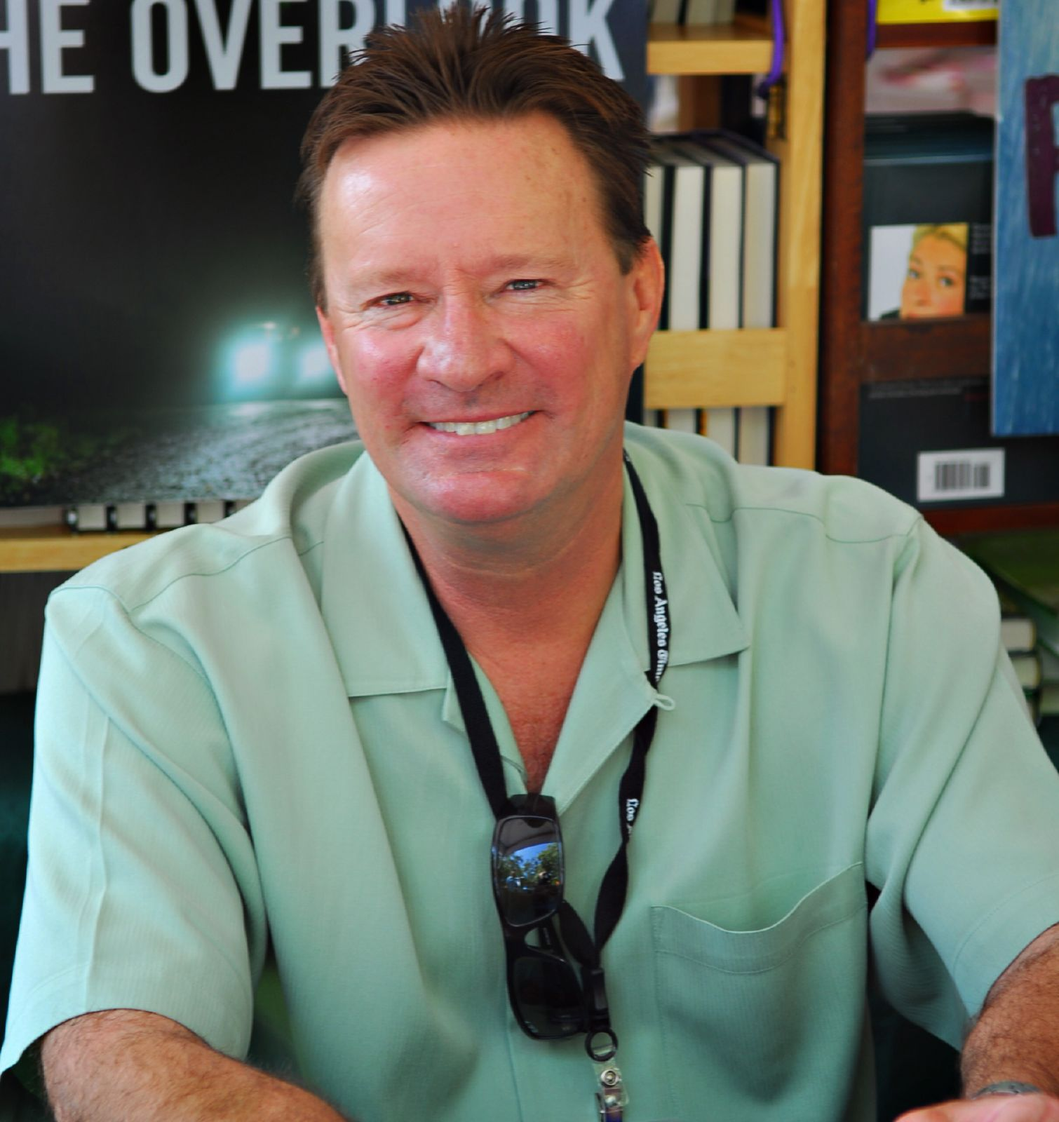 T. Jefferson Parker at the Los Angeles Times Festival of Books.